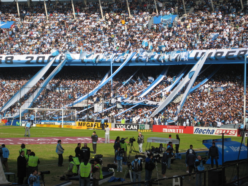 The Racing's people.